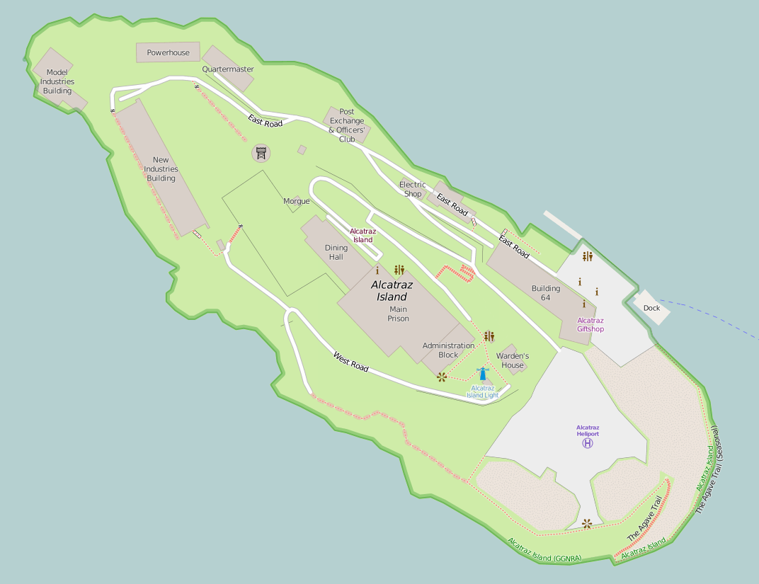 Map of Alcatraz Island — former prison and present day park, in San Francisco Bay, California.